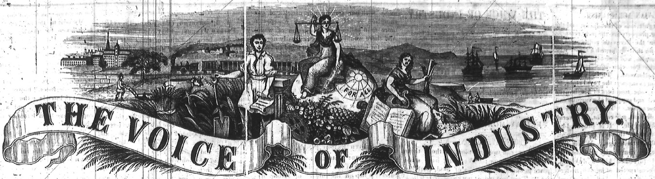 Masthead of the Voice of Industry, a labor newspaper published from 1845-1848. This head was used from January, 1847.